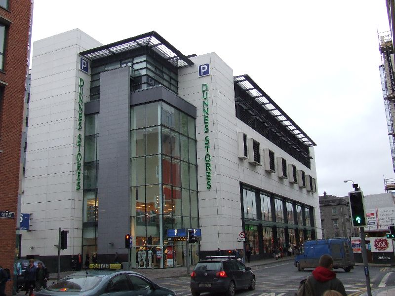 Dunnes Stores Building, Henry St., Limerick